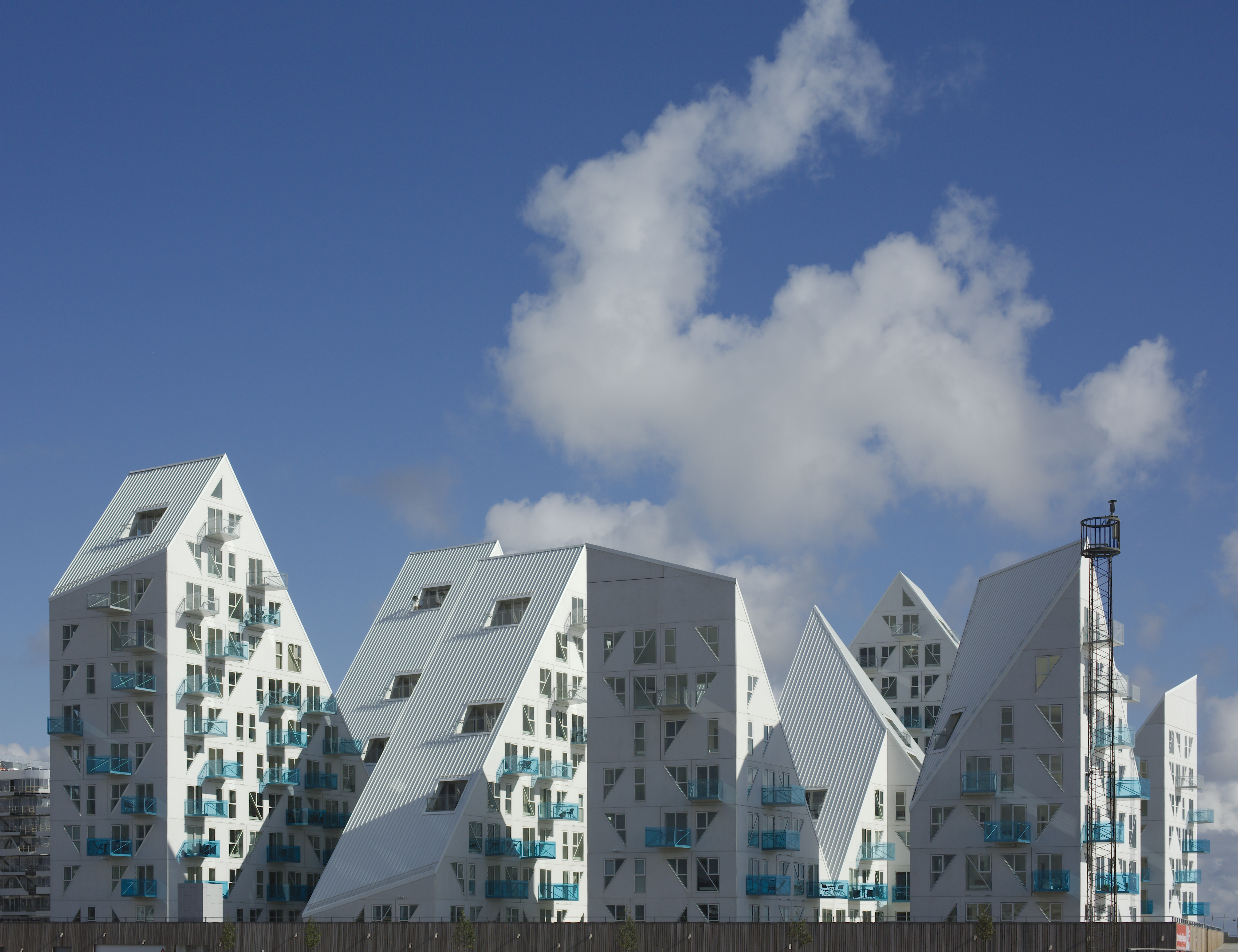 The building "Isbjerget" (The Iceberg) at Aarhus Havn (Port of Aarhus)